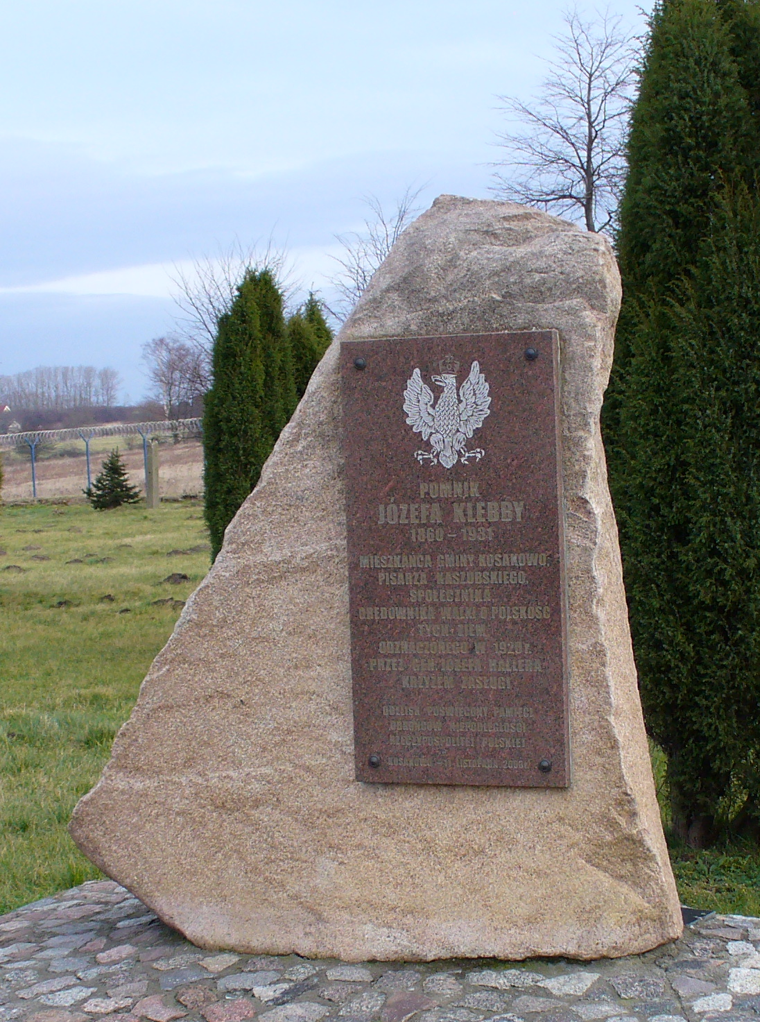 Monument Józef Klebba in Kosakowo (PL).